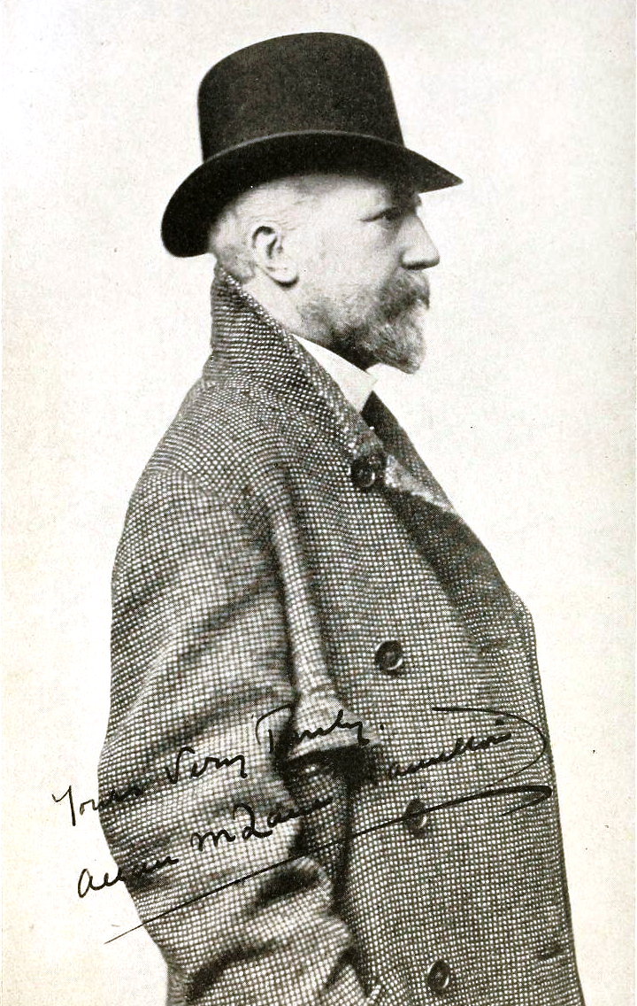 Photograph of Allan McLane Hamilton (1848–1919)